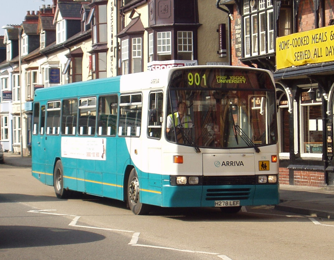 Arriva Cymru Leyland Tiger with Alexander Q Type bodywork in Aberystwyth